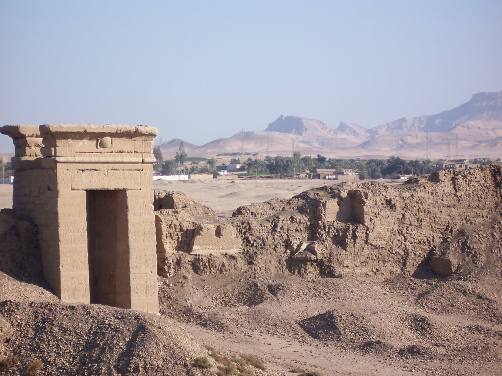 Dendera Hathor Temple Complex location: near Qina, Egypt